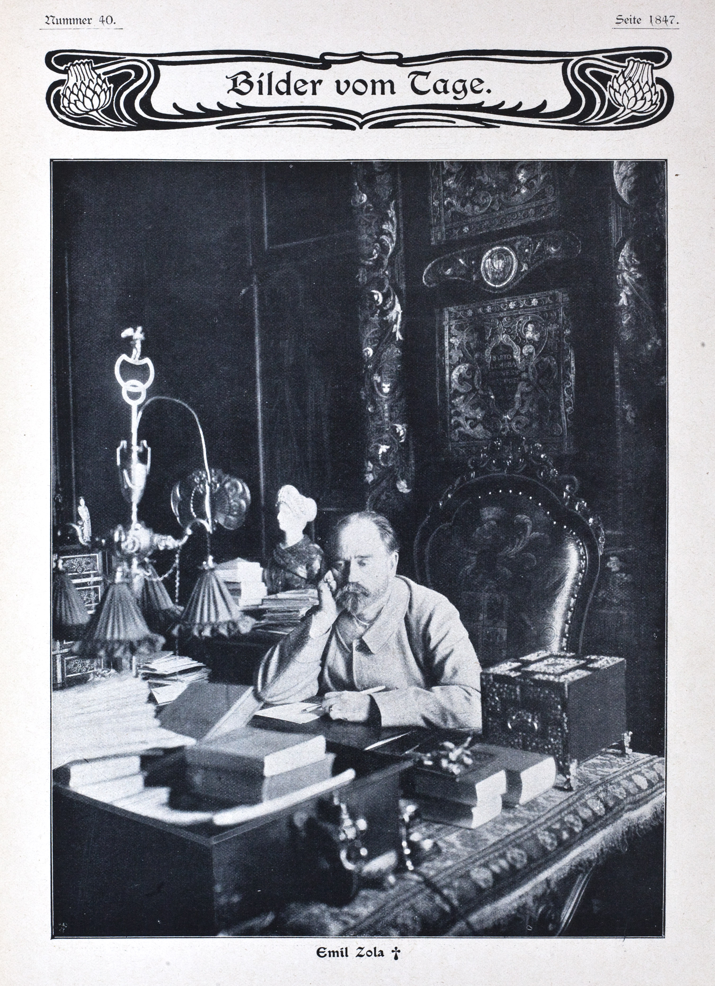 The French writer Èmile Zola in his study, probably in Paris. This image with the headline "Bilder vom Tage" (Pictures of the day) was published on page 1847 of the german boulevard magazine Die Woche a week after his death.